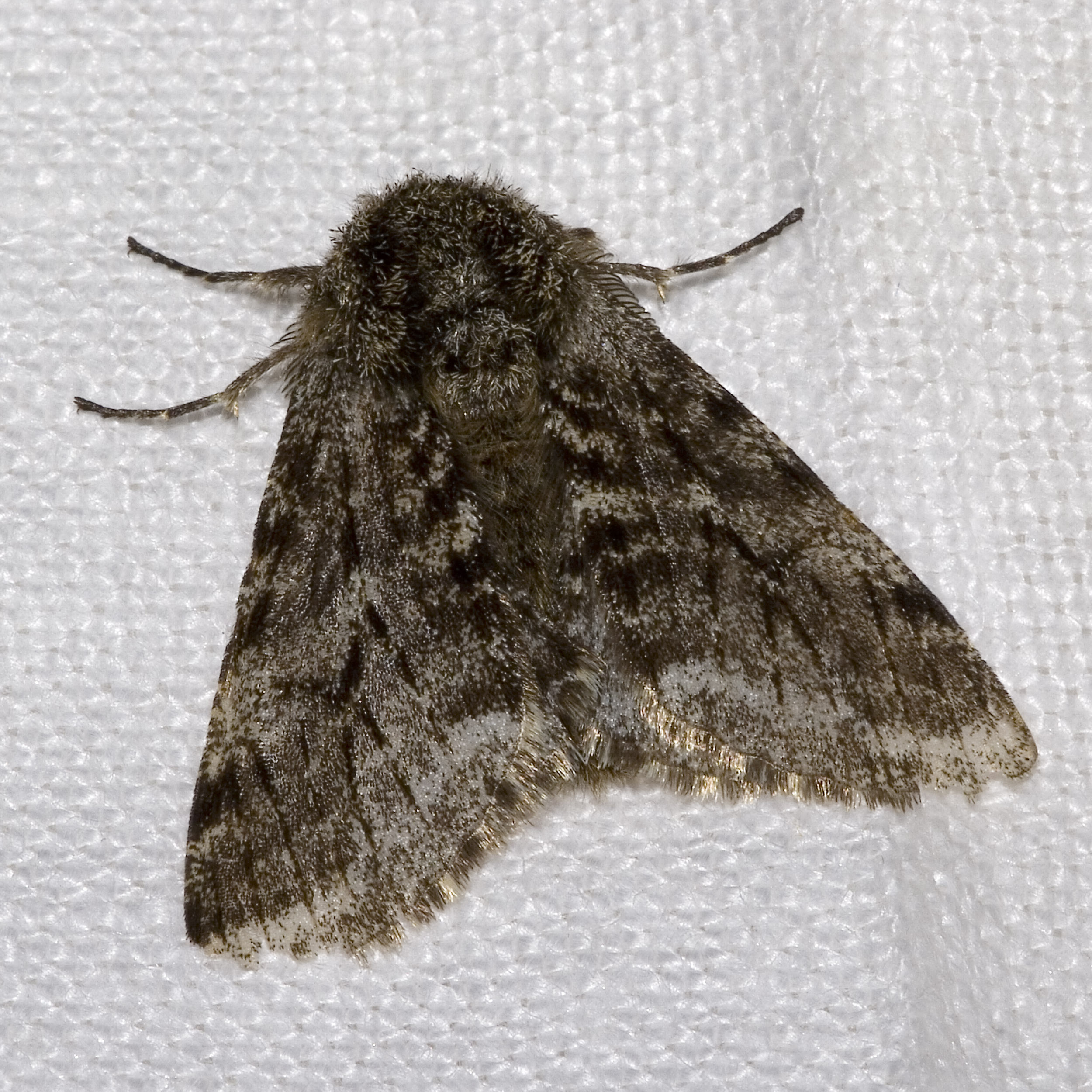 Brindled Beauty, Lycia hirtaria (Clerck, 1795)